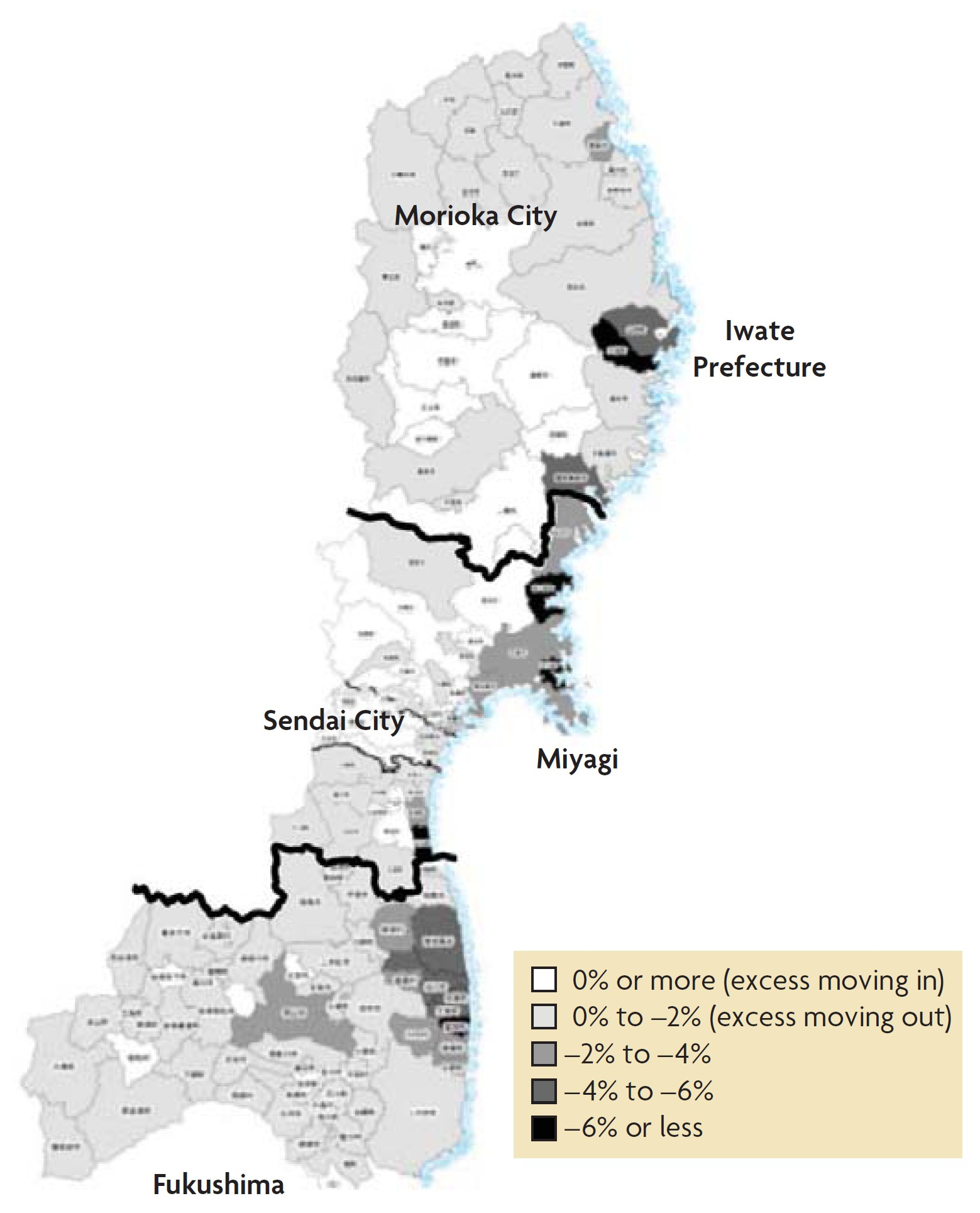 Source: International Recovery Platform, Yasuo Tanaka, Yoshimitsu Shiozaki, Akihiko Hokugo, Sofia Bettencourt: "Reconstruction Policy and Planning", in: Federica Ranghieri, Mikio Ishiwatari (editors): Learning from Megadisasters - Lessons from the Great East Japan Earthquake, World Bank Publications, Washington, DC, 2014, ISBN (paper): 978-1-4648-0153-2, ISBN (electronic): 978-1-4648-0154-9, Chapter 21, pp. 181-192, here: p. 187, "Map 21.2 Gap between people moving in and people moving out as a share of the population - Sources: Statistics Bureau, Ministry of Internal Affairs and Communications, and Minamisanriku Town"). License: Creative Commons Attribution CC BY 3.0 IGO. Context as given in the source as cited above: "According to government statistics, a large number of people moved out of the aff ected municipalities following the disaster. The gap between out-migrants and in-migrants relative to the total population in 2011 was particularly high for coastal municipalities— 9.4 percent in Minamisanriku, 8.9 percent in Yamamoto, and 8.5 percent in Otsuchi. That gap was also large among young people (less than 15 years old)— up to 14.6 percent in Minamisanriku and 13.2 percent in Onagawa, further raising concerns about the aging population. In Minamisanriku, some residents gave up rebuilding altogether due to lack of funds and planned to either leave town or move to public housing (figure 21.5 and map 21.2)."